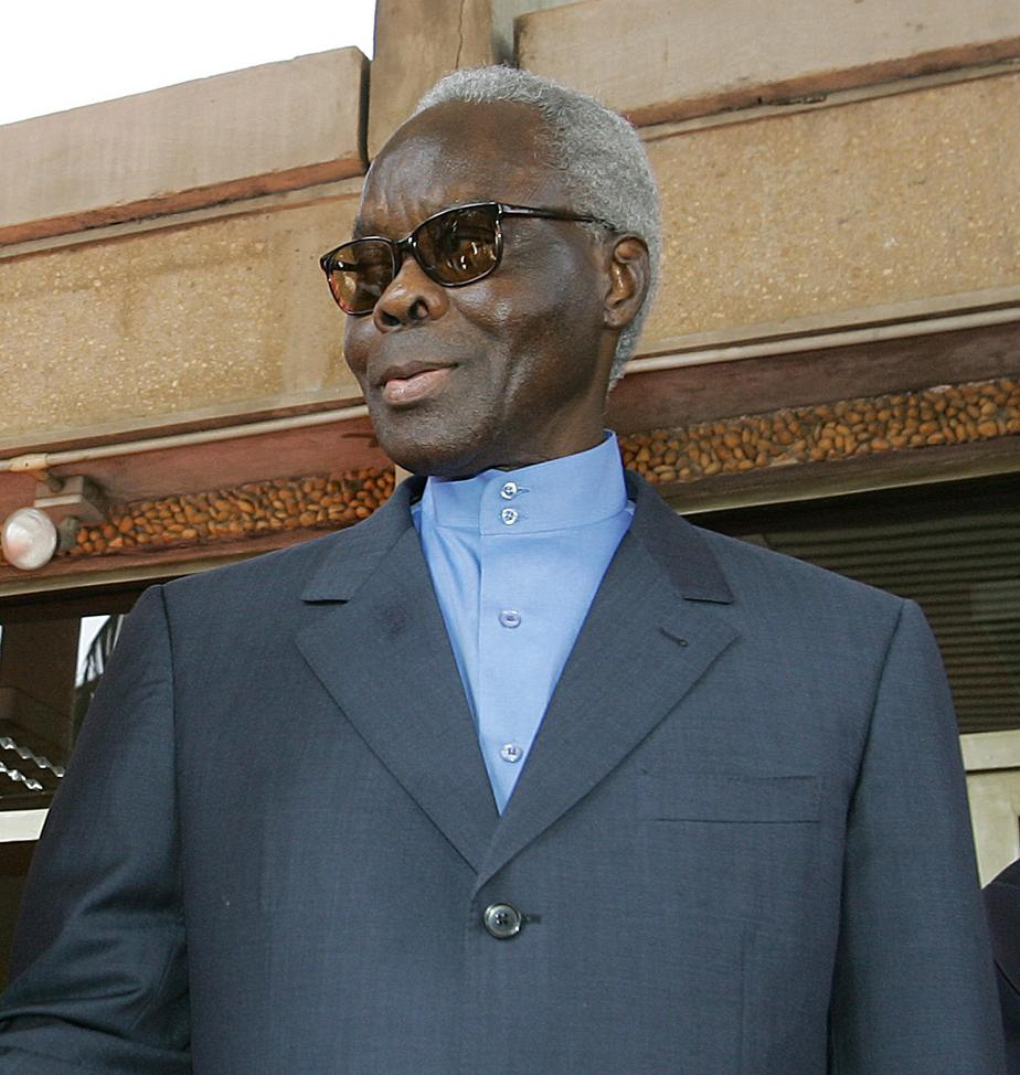 Mathieu Kérékou. Photograph taken in Cotonou (Benin) during a state visit of Brazils Luiz Inácio Lula da Silva.